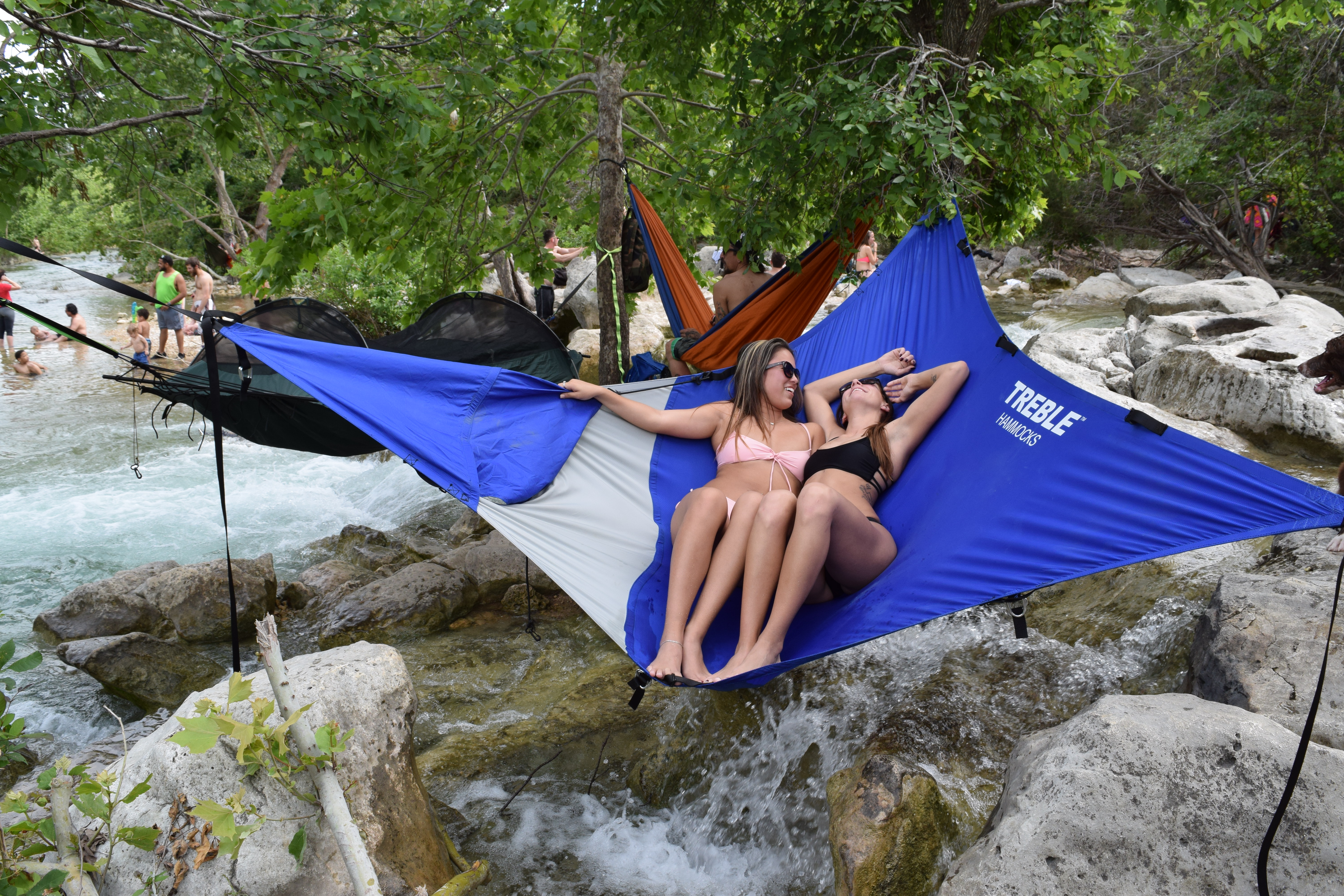 During summer many people hang up hammocks at Twin Falls and hang out for the afternoon.